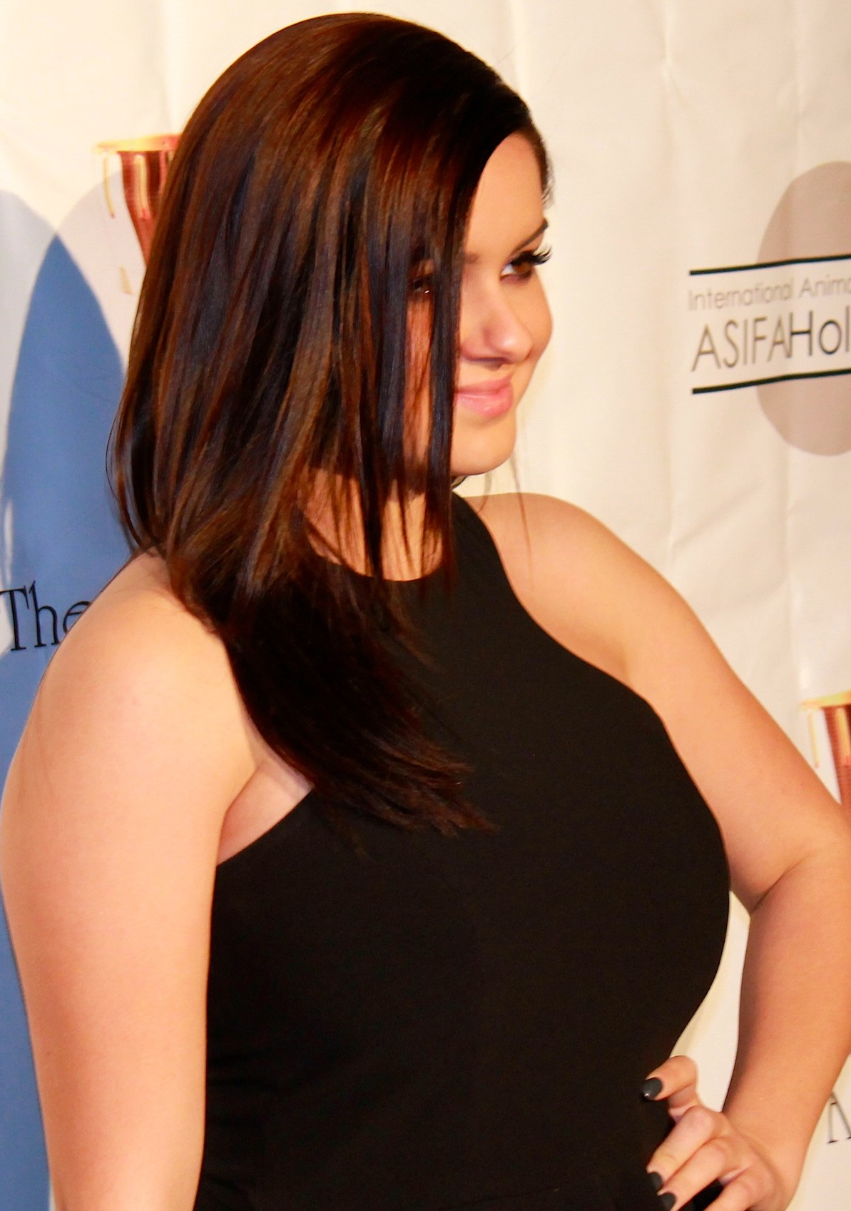 Ariel Winter at the 41st Annual Annie Awards.